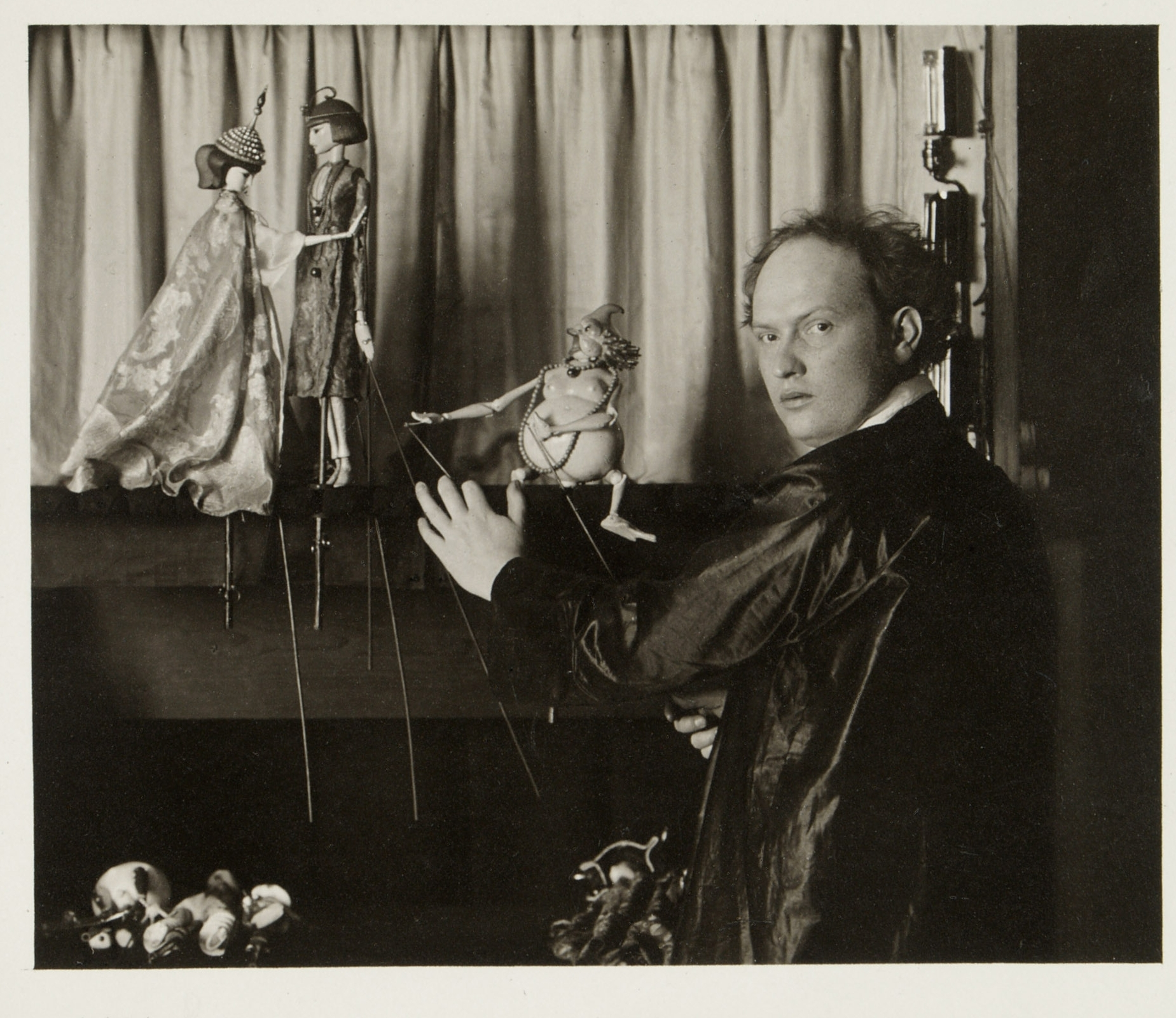 Richard Teschner and his figures